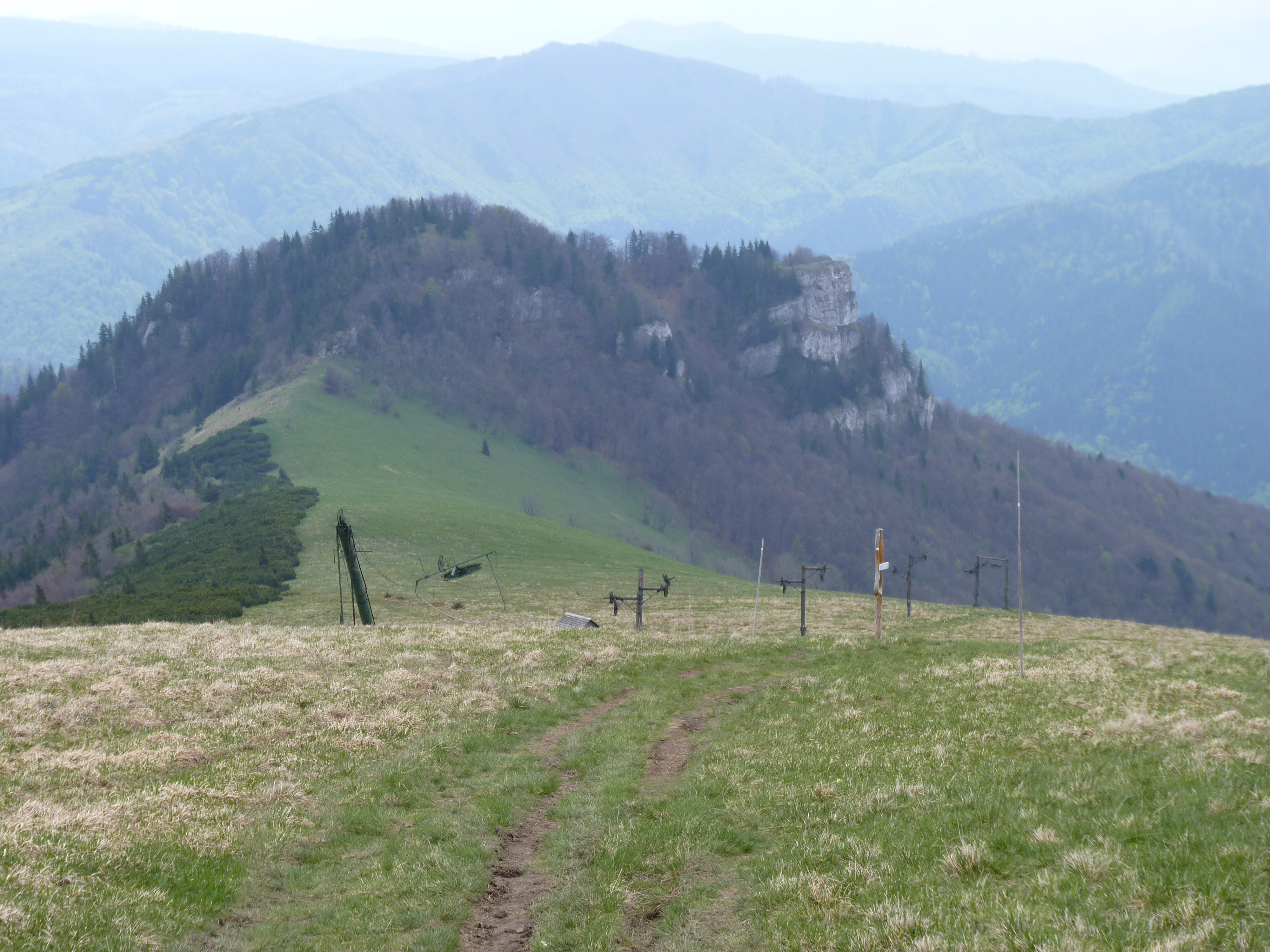 Líška - former ski lift. Great Fatra, Slovakia